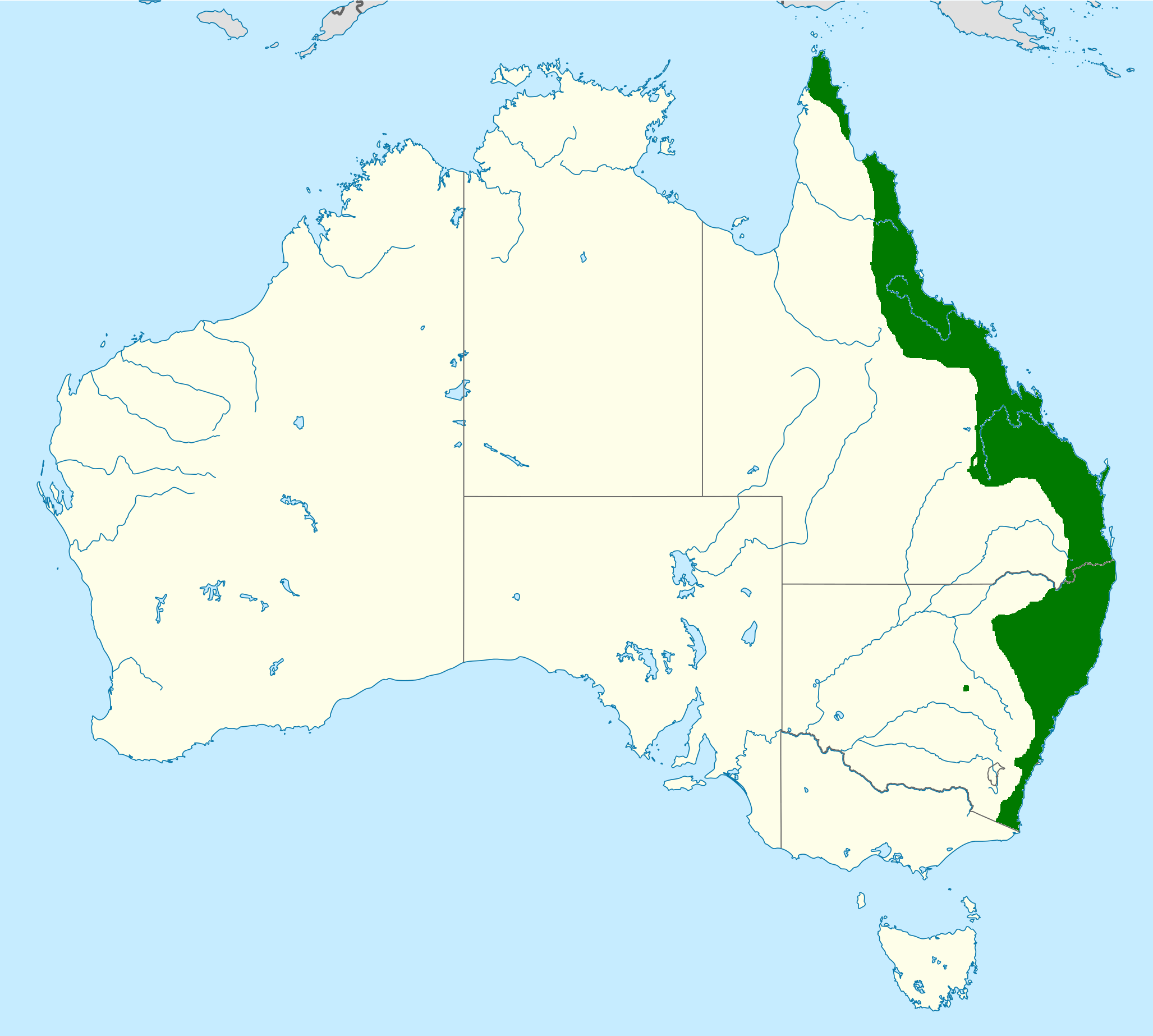 Range map of Ficus rubiginosa. Information taken from this paper - Figuring out the figs, Dale Dixon 2001. Map from File:Australia location map.svg